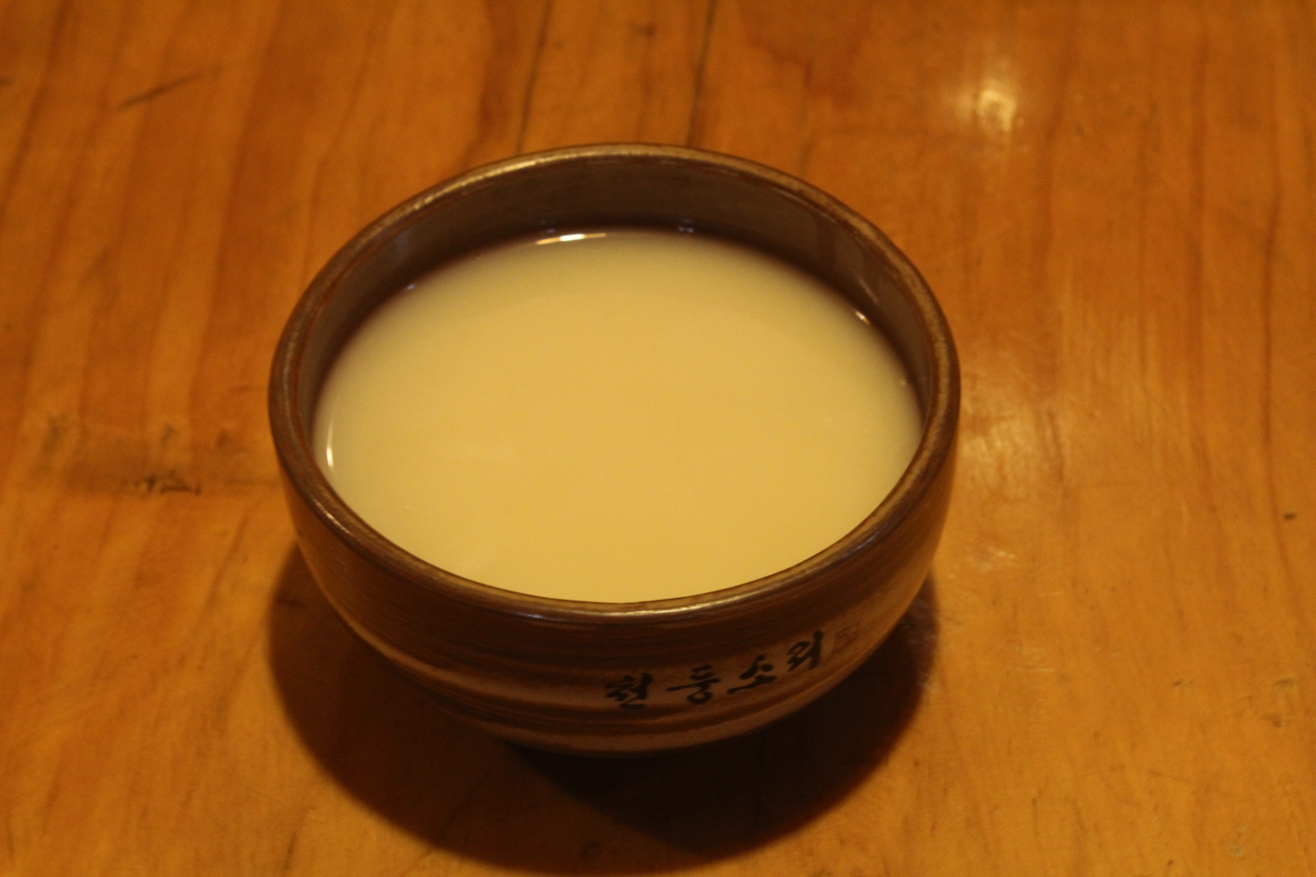 Makgeolli